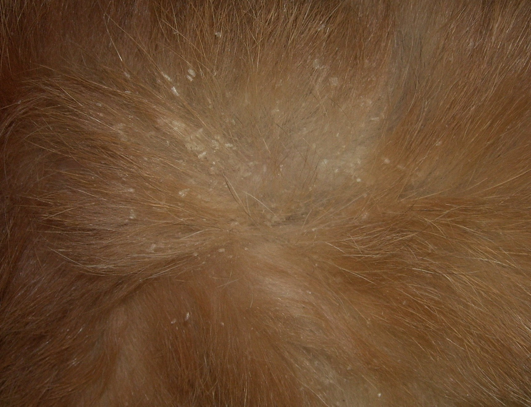 Cheyletiellosis in a rabbit